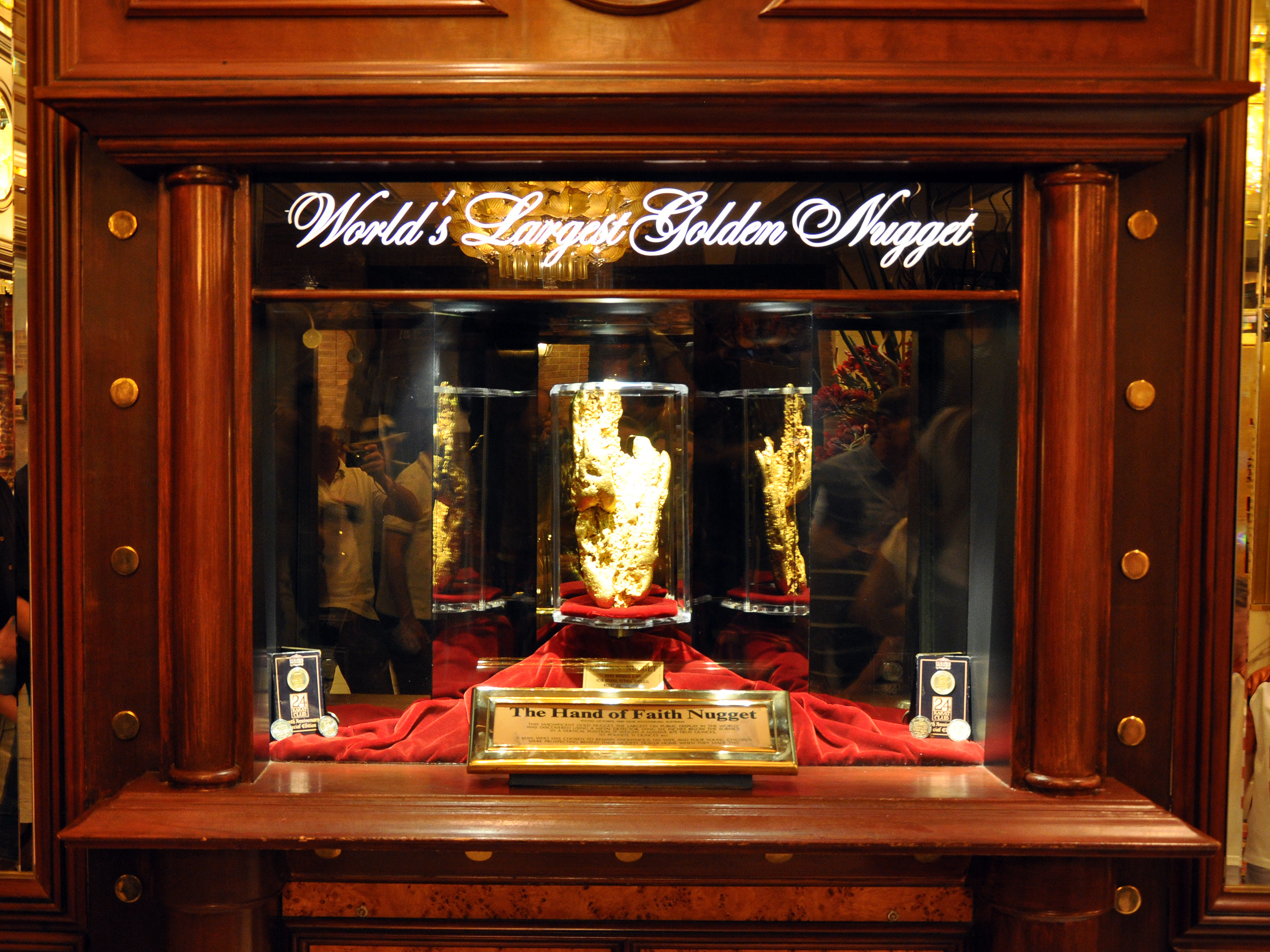 The Hand of Faith Nugget a Las Vegas - USA, agosto 2011